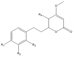 The structure of the fourth class of kavalactones, to be used on the Kavalactones page. Drawn in ChemDraw 10.0 by Yidele, July 2007.